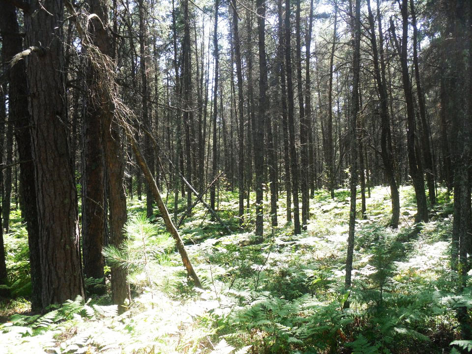 Old growth jack pine forest found in the Spur Woods Wildlife Management Area as part of the Sandilands Provincial Forest in Manitoba.